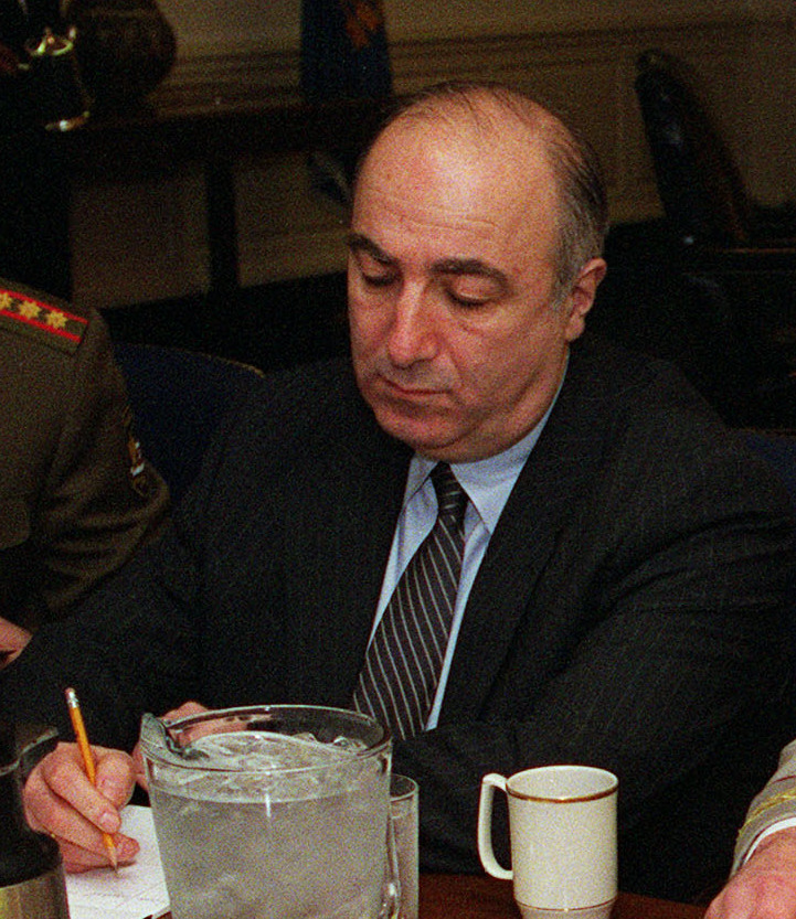 Secretary of Defense Donald H. Rumsfeld (right) meets in his Pentagon office with Minister of Defense David Tevzadze (second from right), of the Republic of Georgia, on March 16, 2001. Georgian Ambassador Tedo Japaridze (second from left) and Lt. Col. Archil Tsintsadze, the Georgian defense attaché, joined Rumsfeld and Tevzadze as they discussed a range of regional security issues of interest to both nations.